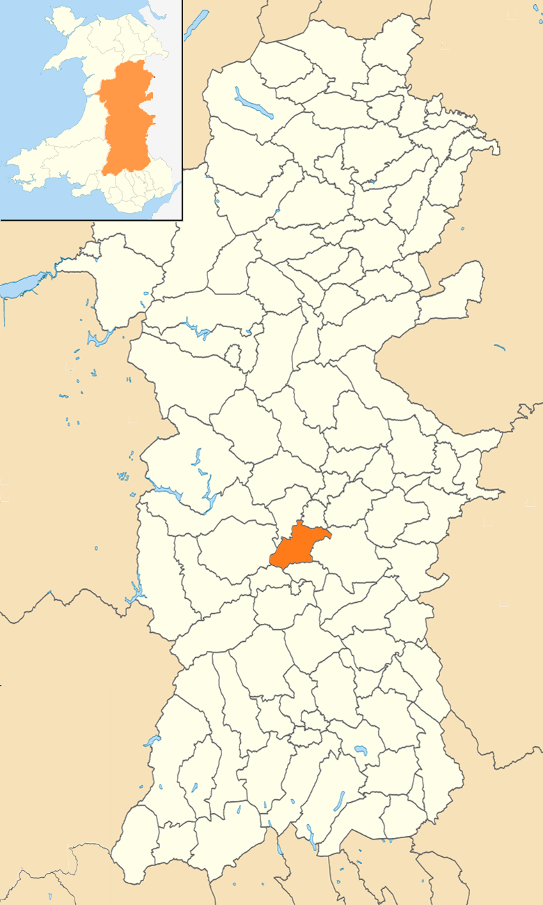 Location map of the Disserth and Trecoed community (civil parish) in mid Powys, Wales